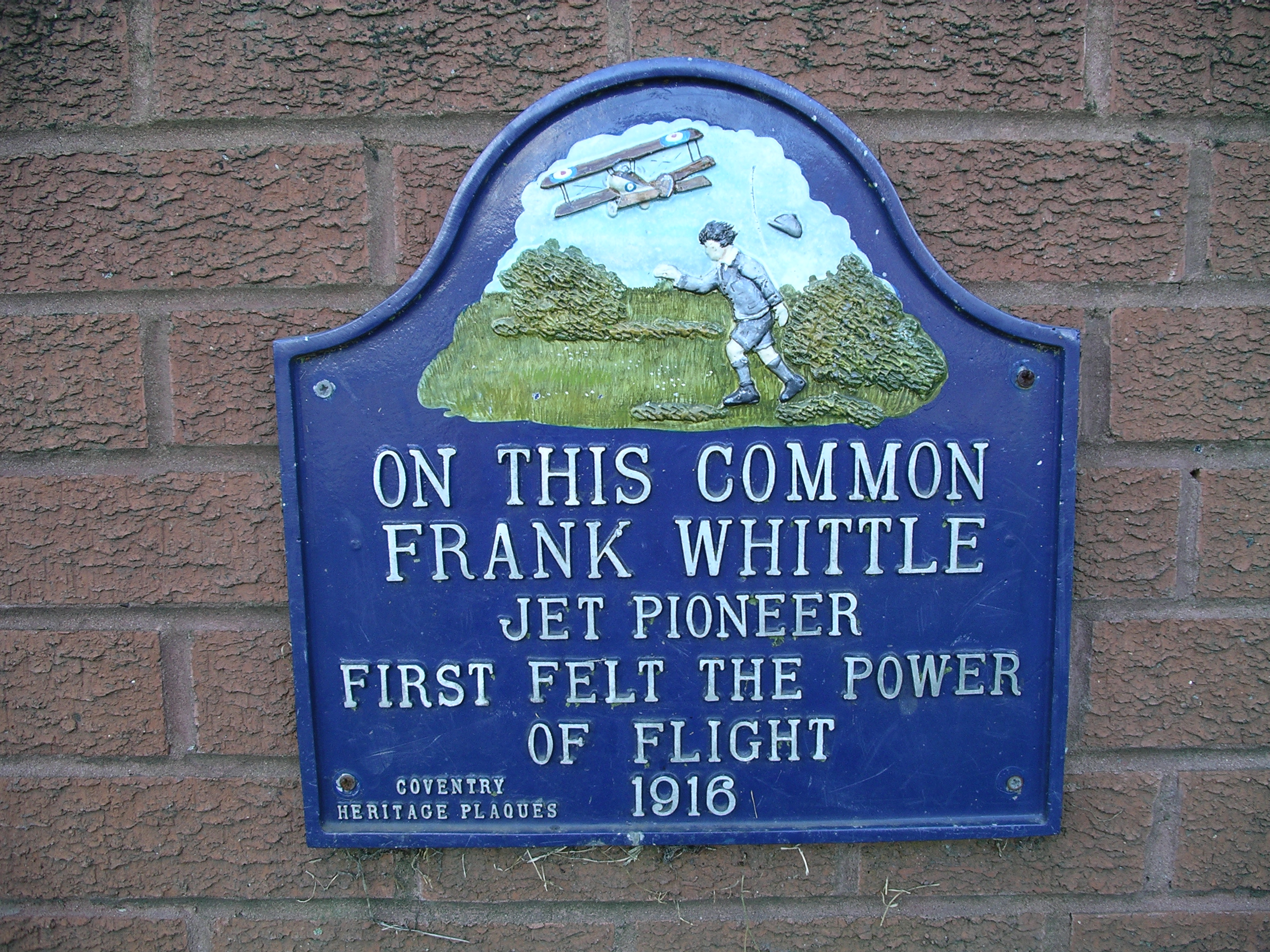 Photo of the plaque Hearsall Common, Coventry, England. The plaque (close up photo) commemorates Sir Frank Whittle.